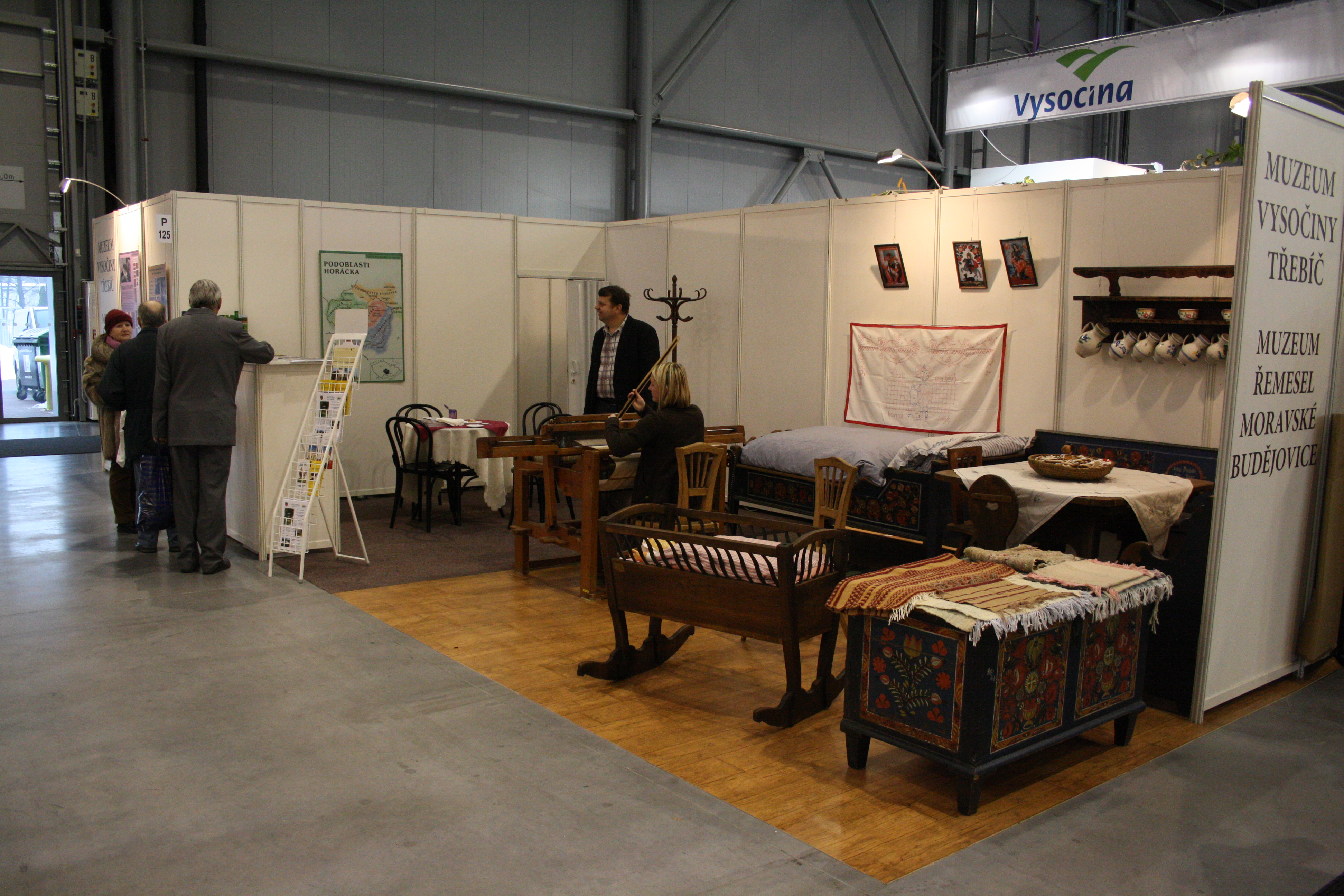 Presentation of various touristic destinations of Czech Republic.